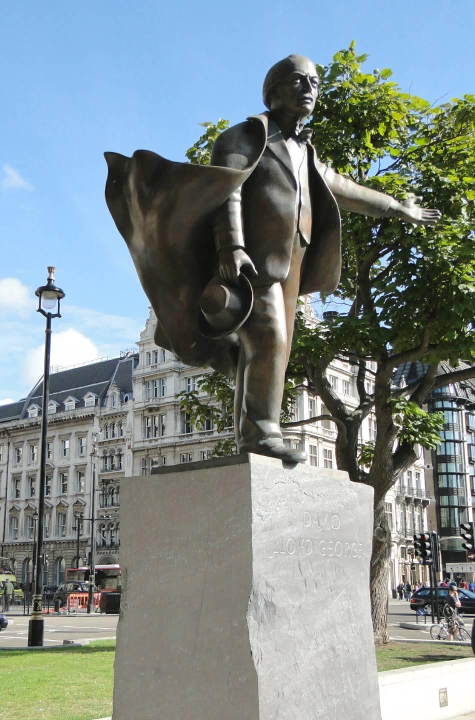 Photograph of statue of David Lloyd George in Parliament Square, Westminster, London.